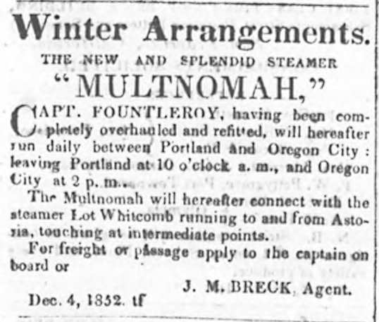 Newspaper advertisement for Willamette and Columbia river sidewheeler Multnomah, circa 1852